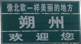 A sign near the Shuozhou exit on a highway from Datong to Yuncheng, Shanxi Province, PRC. It reads:"Welcome to Shuozhou, a place as beautiful as North Europe"